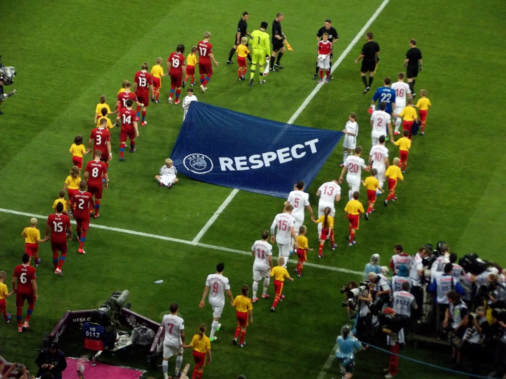 Czech Republic - Poland teams entry, UEFA Euro 2012.